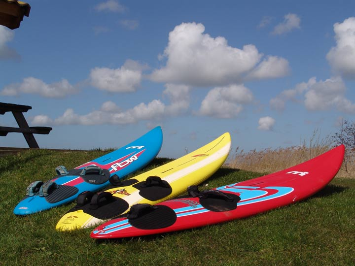 Windsurfboards at Oudega Paas.